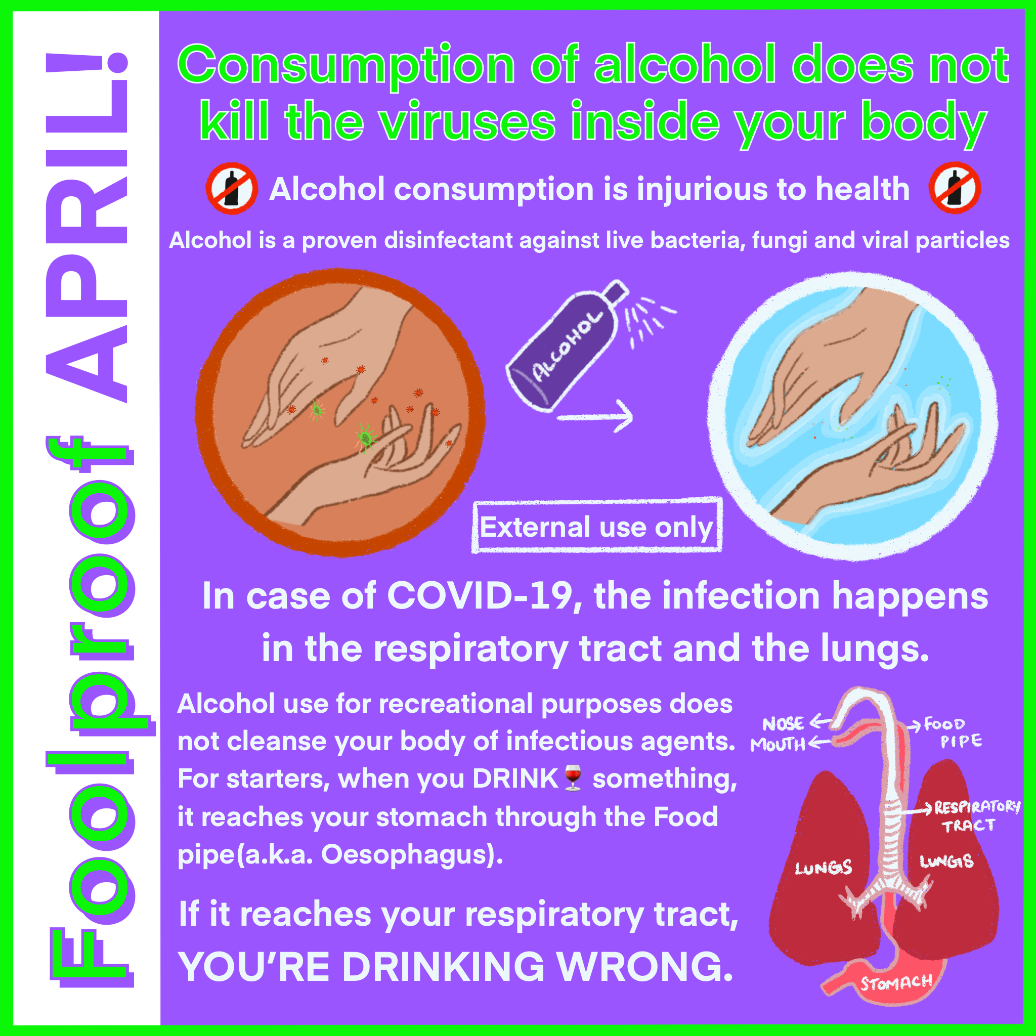 Foolproof April series- busting novel corona virus/Covid-19 myths- Image4